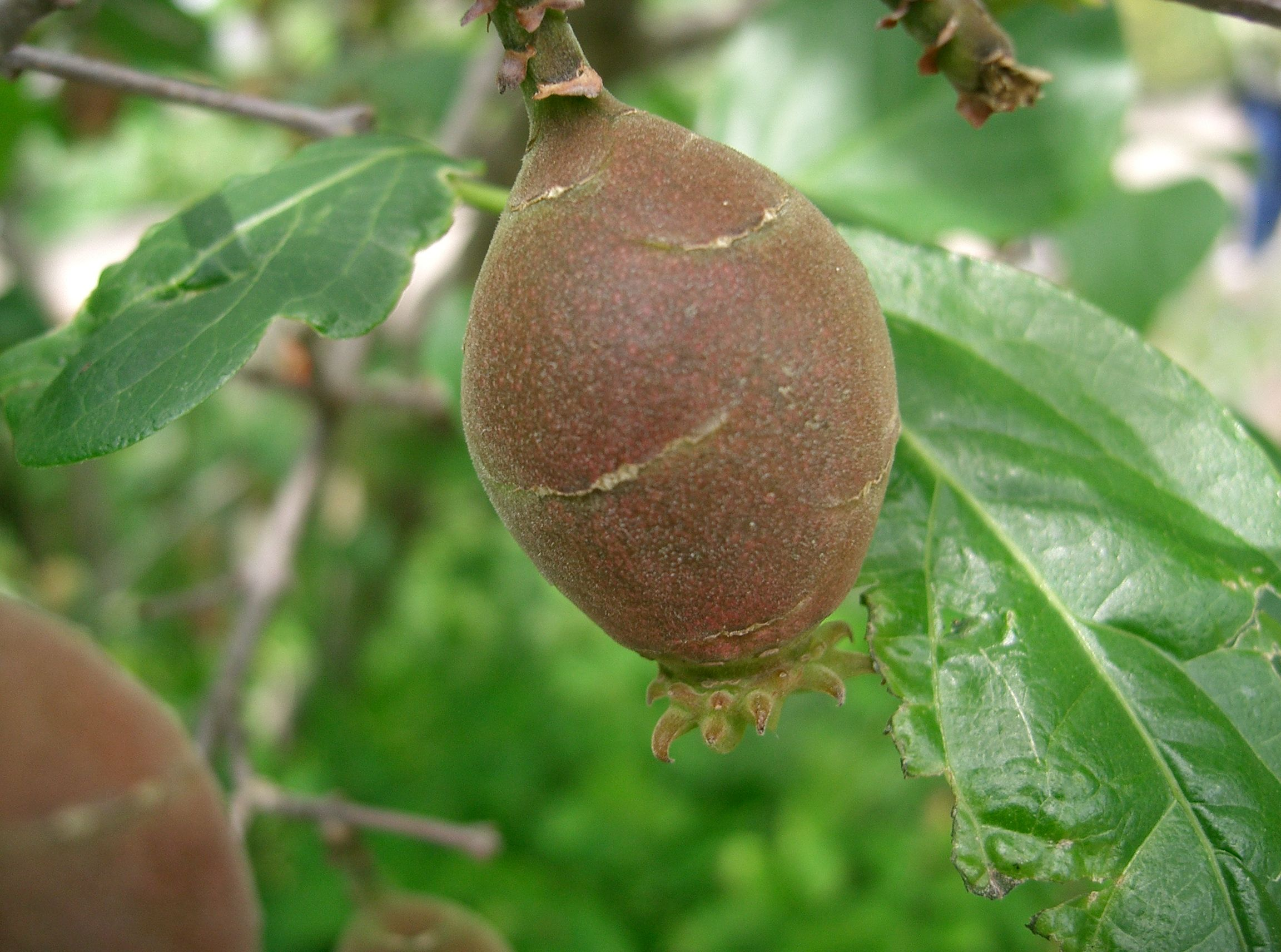 Chimonanthus praecox